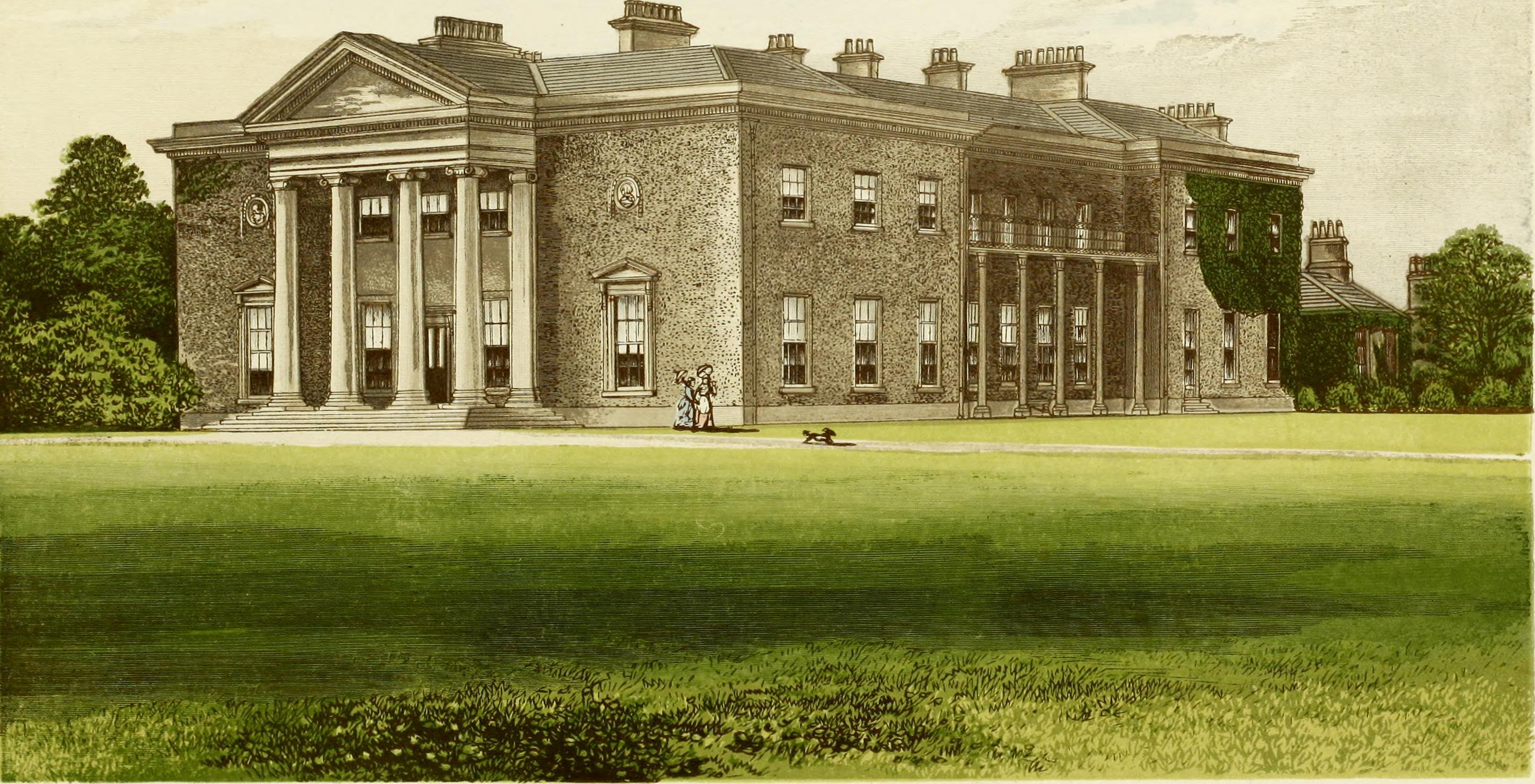 Title: A series of picturesque views of seats of the noblemen and gentlemen of Great Britain and Ireland. With descriptive and historical letterpress Year: 1840 (1840s) Authors: Morris, F. O. (Francis Orpen), 1810-1893 Subjects: Historic buildings Historic buildings Publisher: London (etc.) W. Mackenzie Text Appearing Before Image: ' Text Appearing After Image: BISHOPS COURT, NEAR STEAPPAN, COUNTY KILDARE, IRELAND.—EARL OP CLONMELL. Bishops Court, the seat of the Earl of Clonmell, is handsomely situated in a very-extensive demesne, four miles from Naas and twelve from Dublin. It was built by Lord Ponsonby, and was purchased in the year 1838 from theHon. Frederick Ponsonby, by John Henry, third Earl of Clonmell. The family of Lord Clonmell derives from Captain Thomas Scott, father of Michael Scott, Esq., who, by his wife. Miss Purcell, of the family of the titularBarons of Loughmoe, of that name, had a son, John Scott, Esq., successively Solicitor-General, Attorney-General, and PrimeSergeant of L-eland, between the years 1774 and 1783. In the year 1784 he wasmade Chief Justice of the Court of King^s Bench, and created, on the 10th. ofMay in that year. Baron Earlsfort. On the 18th. of August, 1789, his Lordshipwas further raised to the dignity of Yiscount op Clonmell, and to that of Earl opClonmell December 20th., 1793. He married twice. By